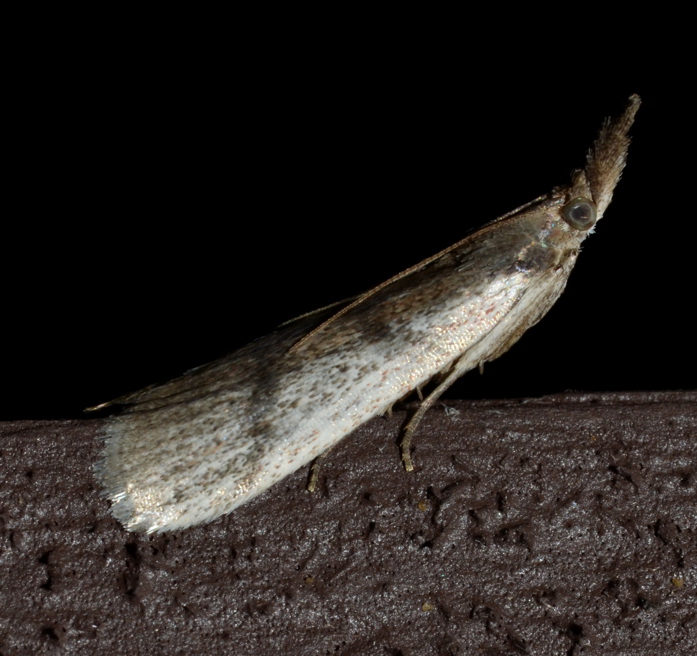 Cuivre River State Park 8/30/14